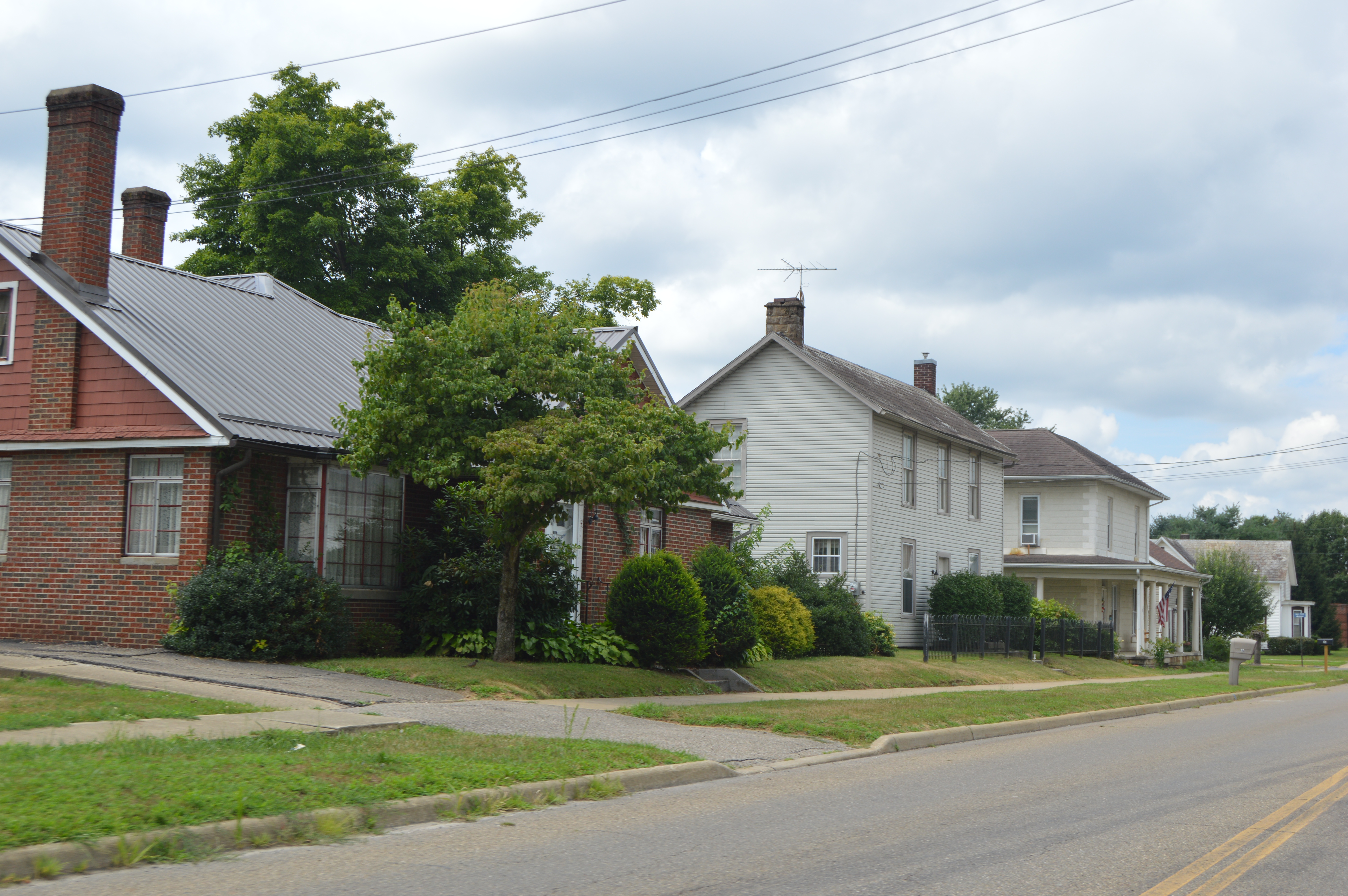 Houses on the southern side of Third Street west of State Street in Frazeysburg, Ohio, United States.